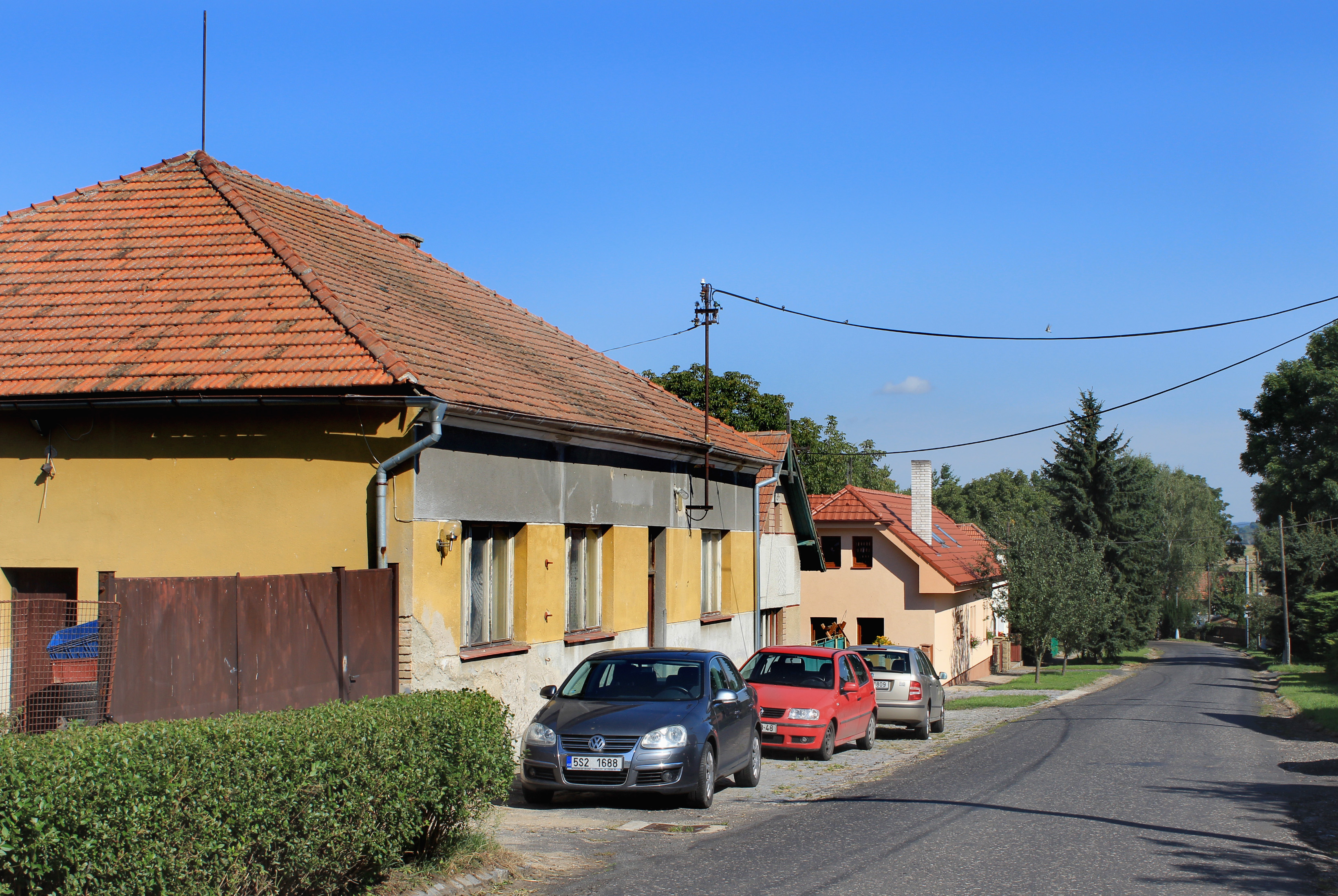 Main street in Nový Dvůr, Czech Republic.